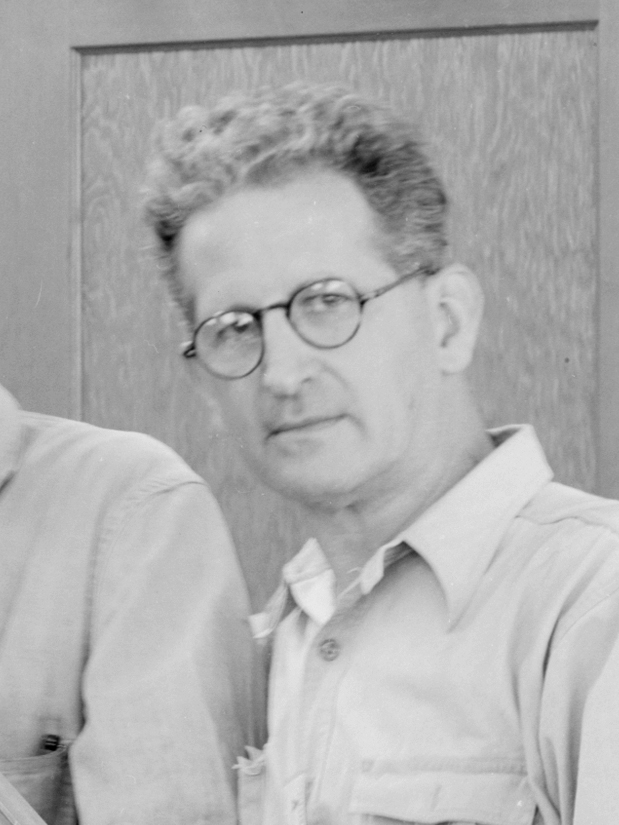 Tie-in survey device for alpha magnetic field measurement, referred to as "Cedric." Laboratory Photographer, Cedric Wright, (far right) shown here with unknown individual, possibly Sam Simmons. Formerly confidential. Photograph taken June 24, 1943. Magnet-61. Principal Investigator/Project: Analog Conversion Project